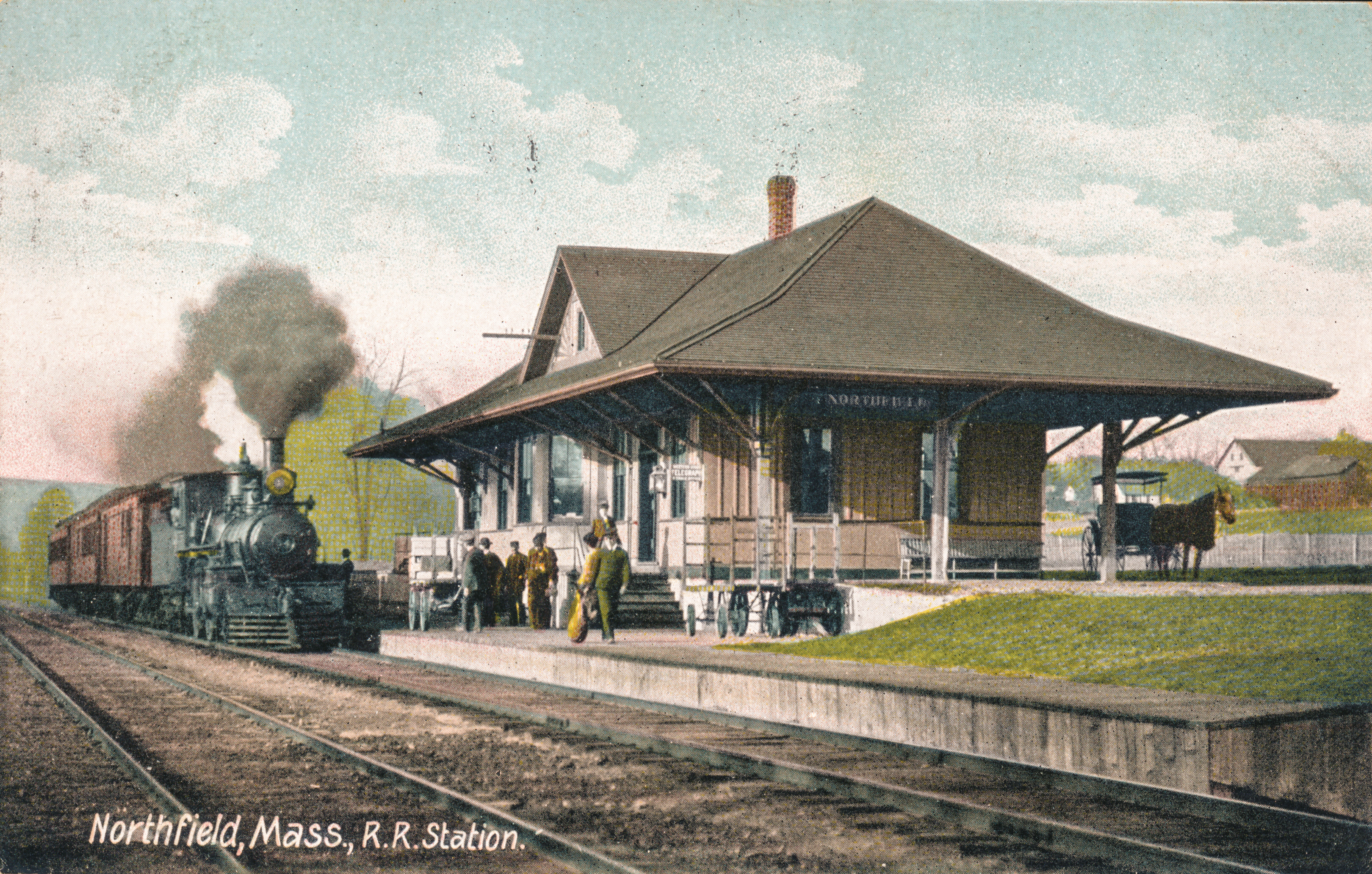 An early postcard with an image of the former Northfield, Massachusetts railroad station.